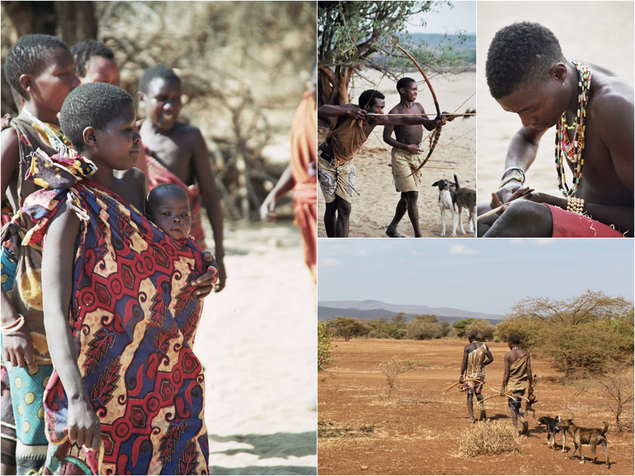 Collage of Hadza people.